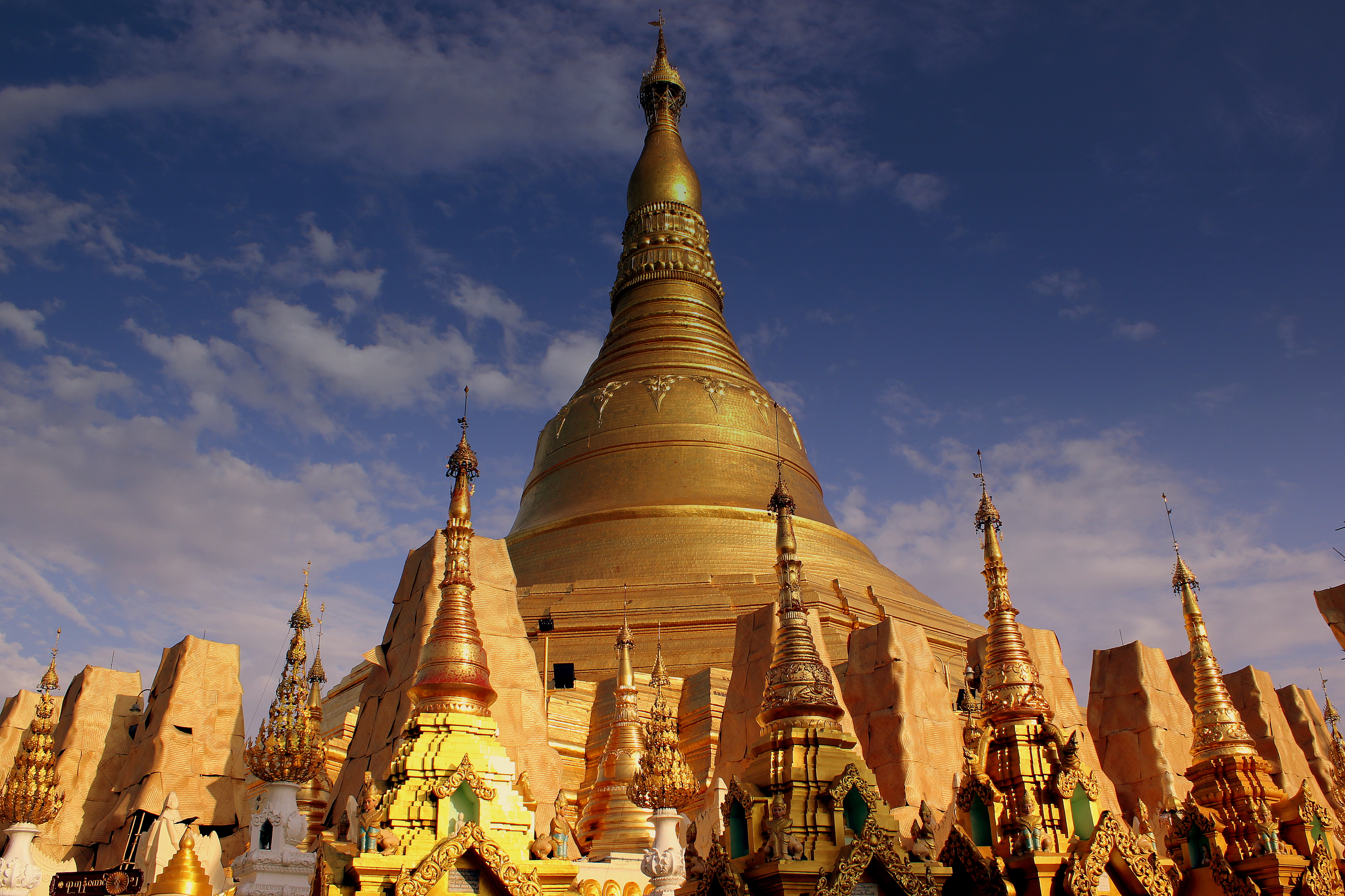 ONE OF THE BIGGEST BUDDIST TEMPLE COMPLEX.s IN THE WORLD